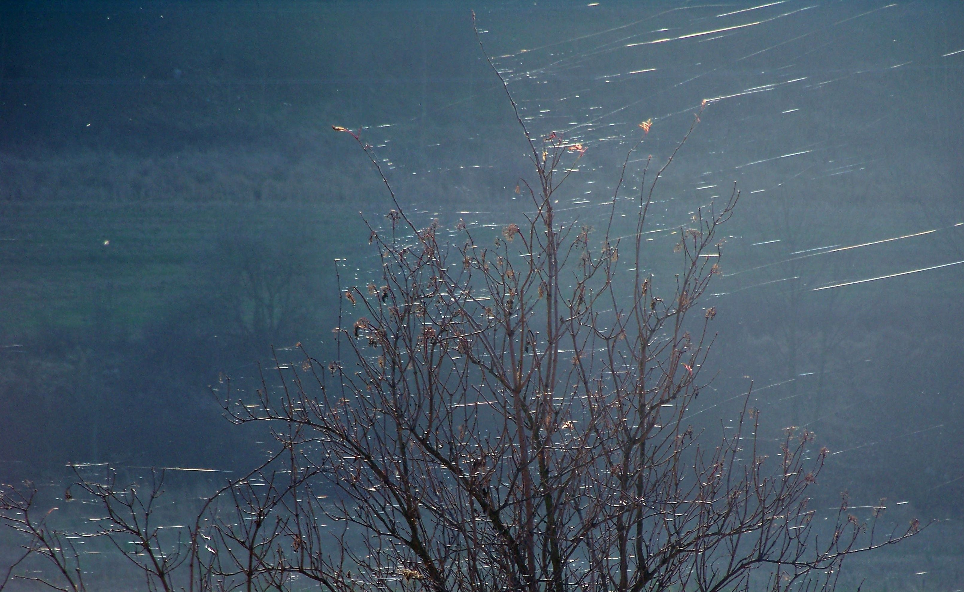 Karlštejn-Poučník, Beroun District, Central Bohemian Region, the Czech Republic.